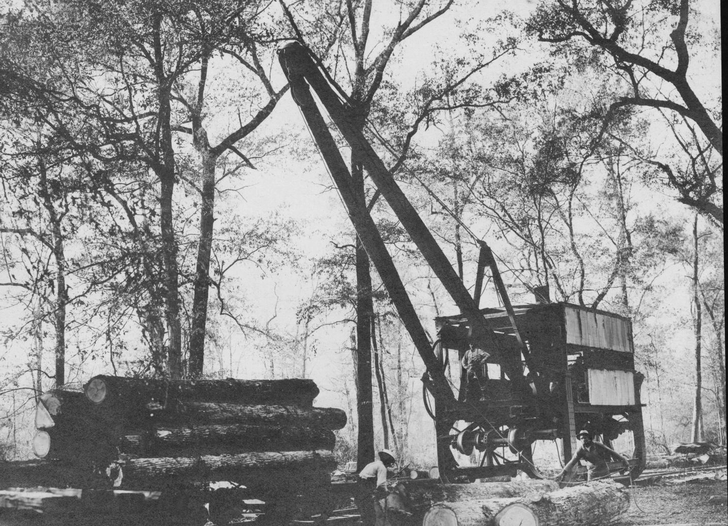 Southern Pine Lumber Company's McGiffert log loader 3 showing crewmen attaching a log to the loader's swinging boom. This loader was primarily used in hardwood logging operations. This is likely in Trinity County, Texas.